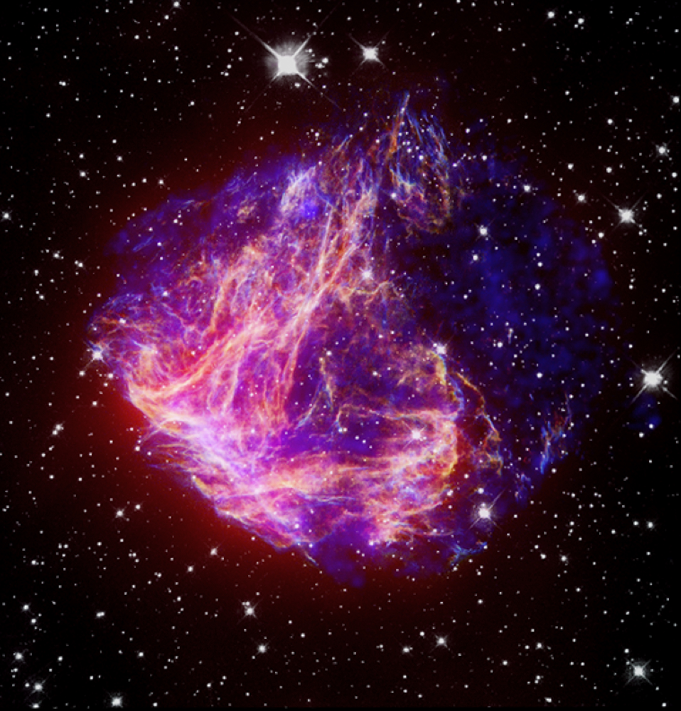 Stellar Debris in the Large Magellanic Cloud